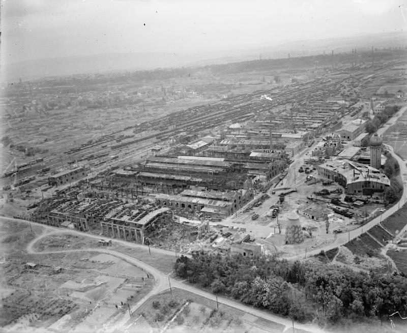 Royal Air Force Bomber Command, 1942-1945. Oblique aerial view of wrecked railway repair sheds in the Rothenditmold marshalling yards at Kassel, Germany. These were hit in the last large raid on the city on the night of 8/9 March 1945, when 1,100 tons of bombs were dropped on its western parts by 262 Avro Lancasters of No. 1 Group, led by 14 De Havilland Mosquitos of No. 8 Group.